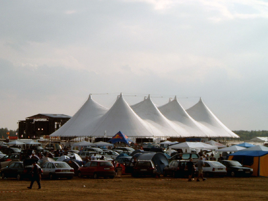 WithFullForce Festival Germany - view of second Stage